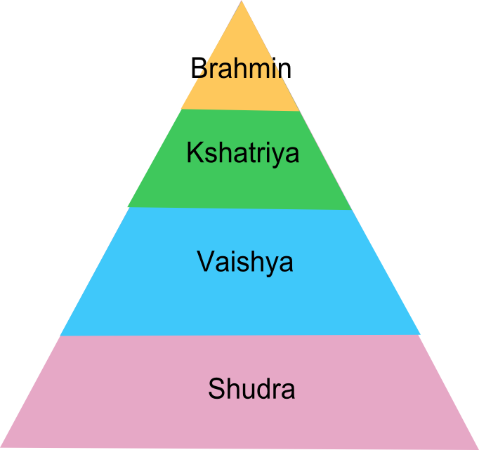 Pyramid of Caste system in India